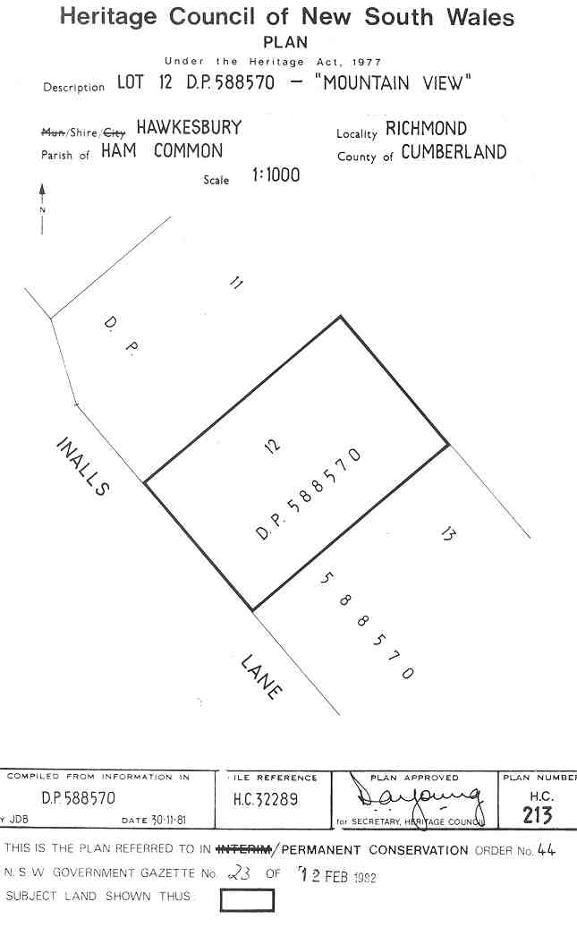 Mountain View, Richmond: PCO Plan Number 044